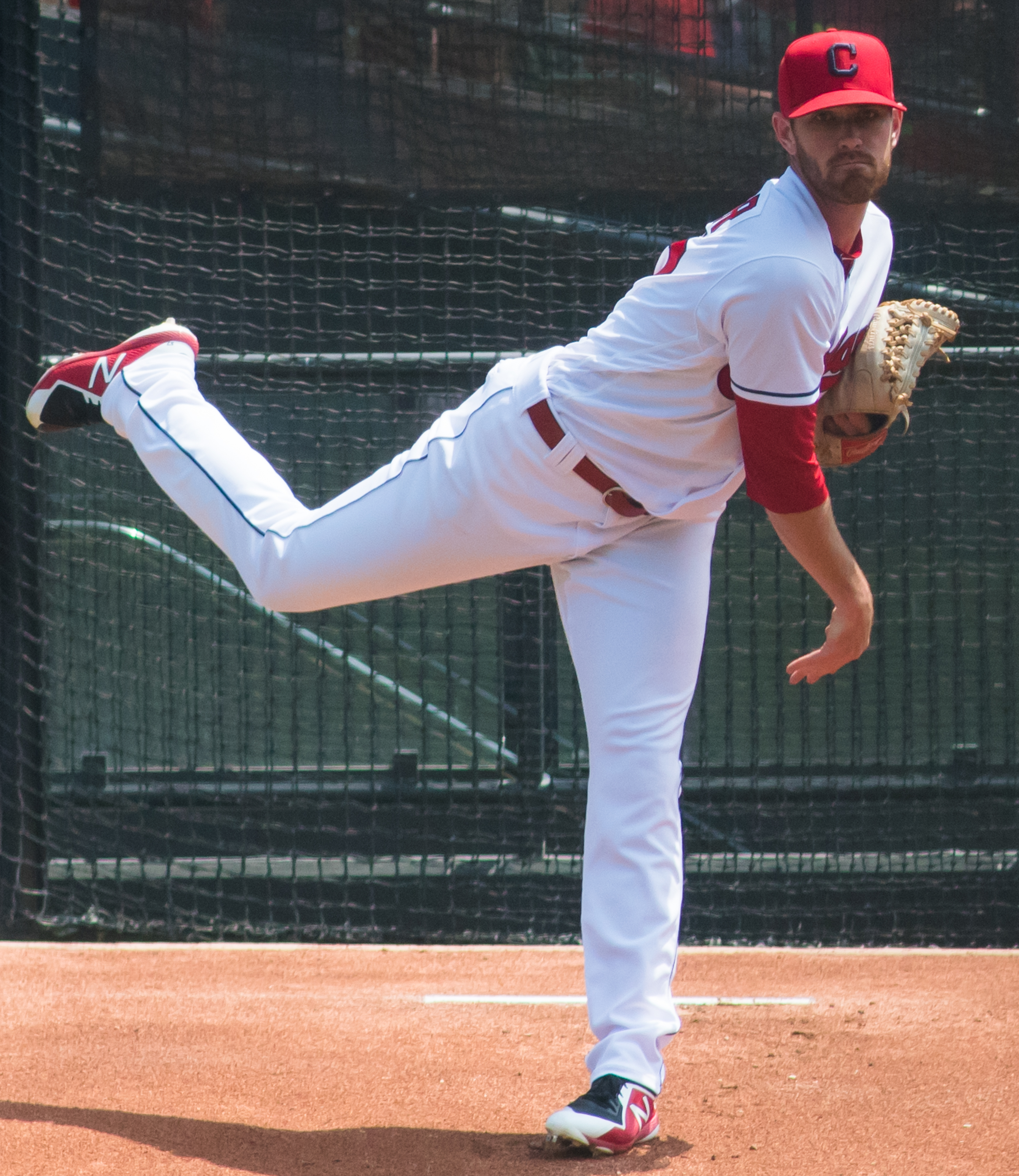 Cleveland Indians pitcher Shane Bieber warms up in the bullpen at Progressive Field in 2018